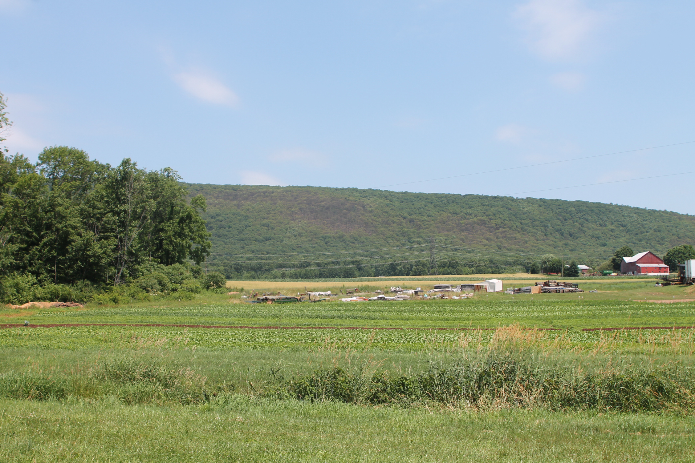 Knob Mountain from the south in Briar Creek Township, Columbia County, Pennsylvania